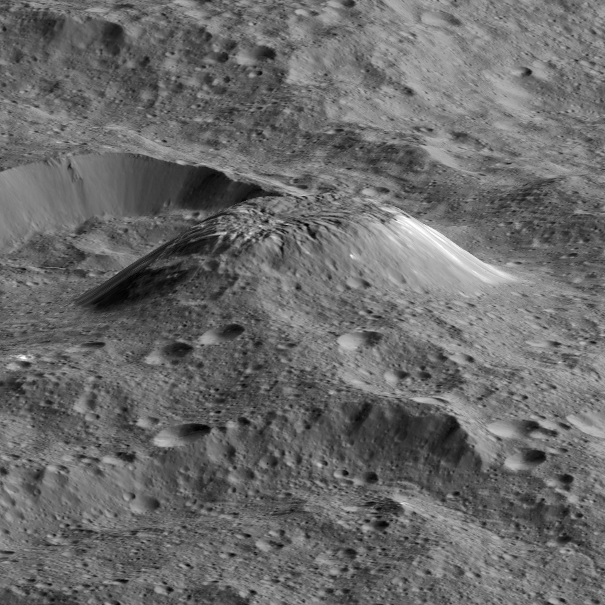 This side-perspective view of Ceres' mysterious mountain Ahuna Mons was made with images from NASA's Dawn spacecraft. Dawn took these images from its low-altitude mapping orbit (LAMO), 240 miles (385 kilometers) above the surface, in December 2015. The resolution of the component images is 120 feet (35 meters) per pixel. A 3-D (anaglyph) view is also available. This mountain is about 3 miles (5 kilometers) high on its steepest side. Its average overall height is 2.5 miles (4 kilometers). These figures are slightly lower than what scientists estimated from Dawn's higher orbits because researchers now have a better sense of Ceres' topography. The diameter of the mountain is about 12 miles (20 kilometers). Researchers are exploring the processes that could have led to this feature's formation. Dawn's mission is managed by JPL for NASA's Science Mission Directorate in Washington. Dawn is a project of the directorate's Discovery Program, managed by NASA's Marshall Space Flight Center in Huntsville, Alabama. UCLA is responsible for overall Dawn mission science. Orbital ATK, Inc., in Dulles, Virginia, designed and built the spacecraft. The German Aerospace Center, the Max Planck Institute for Solar System Research, the Italian Space Agency and the Italian National Astrophysical Institute are international partners on the mission team. For a complete list of acknowledgments, The original NASA image was cropped and converted from TIFF to JPEG format by the uploader.